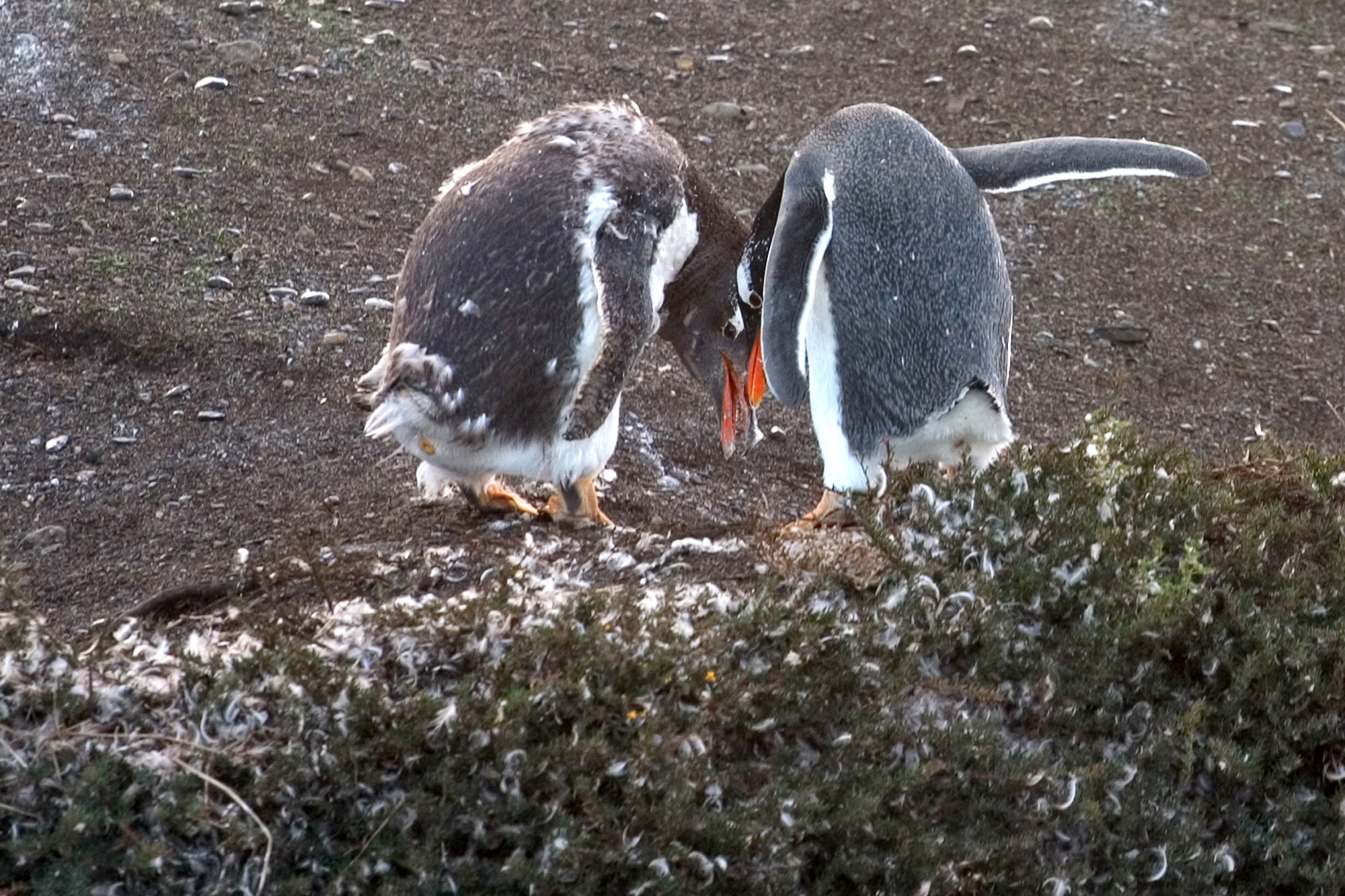 Gentoo Penguins (Pygoscelis papua), Tierra del Fuego, Argentina.